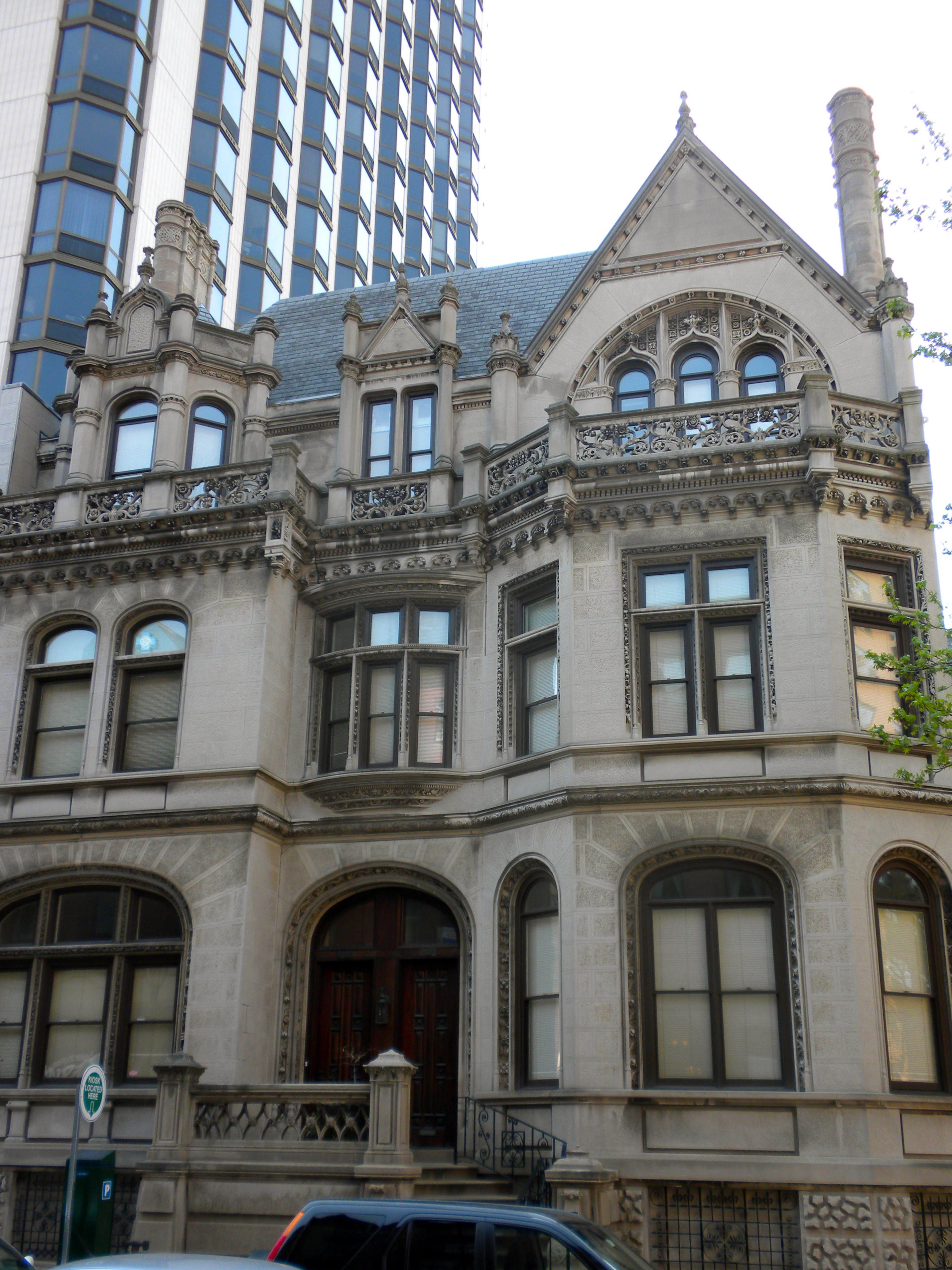 House in the Walnut-Chancellor Historic District (on Walnut St, South side). District on the NRHP since December 1, 1980. district covers 20th to 21st, Walnut and Chancellor Streets, mainly the 2000 block of Walnut. In Rittenhouse Square West neighborhood, Philadelphia